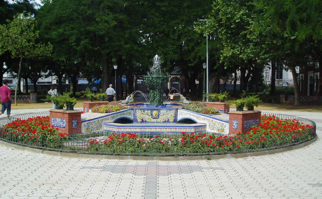 Frogs fountain in Talavera de la Reina (Spain)